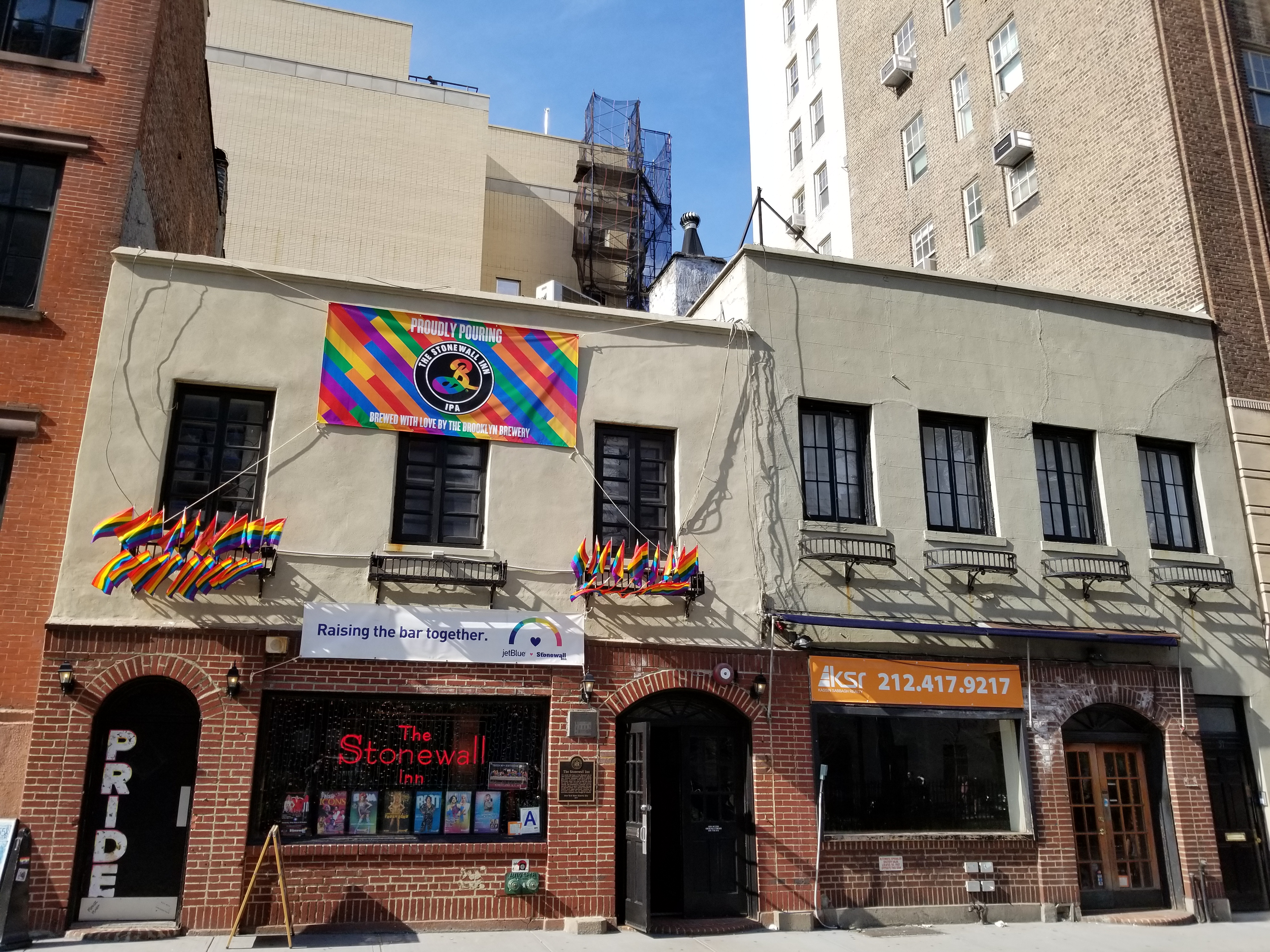 Stonewall Inn, April 2019